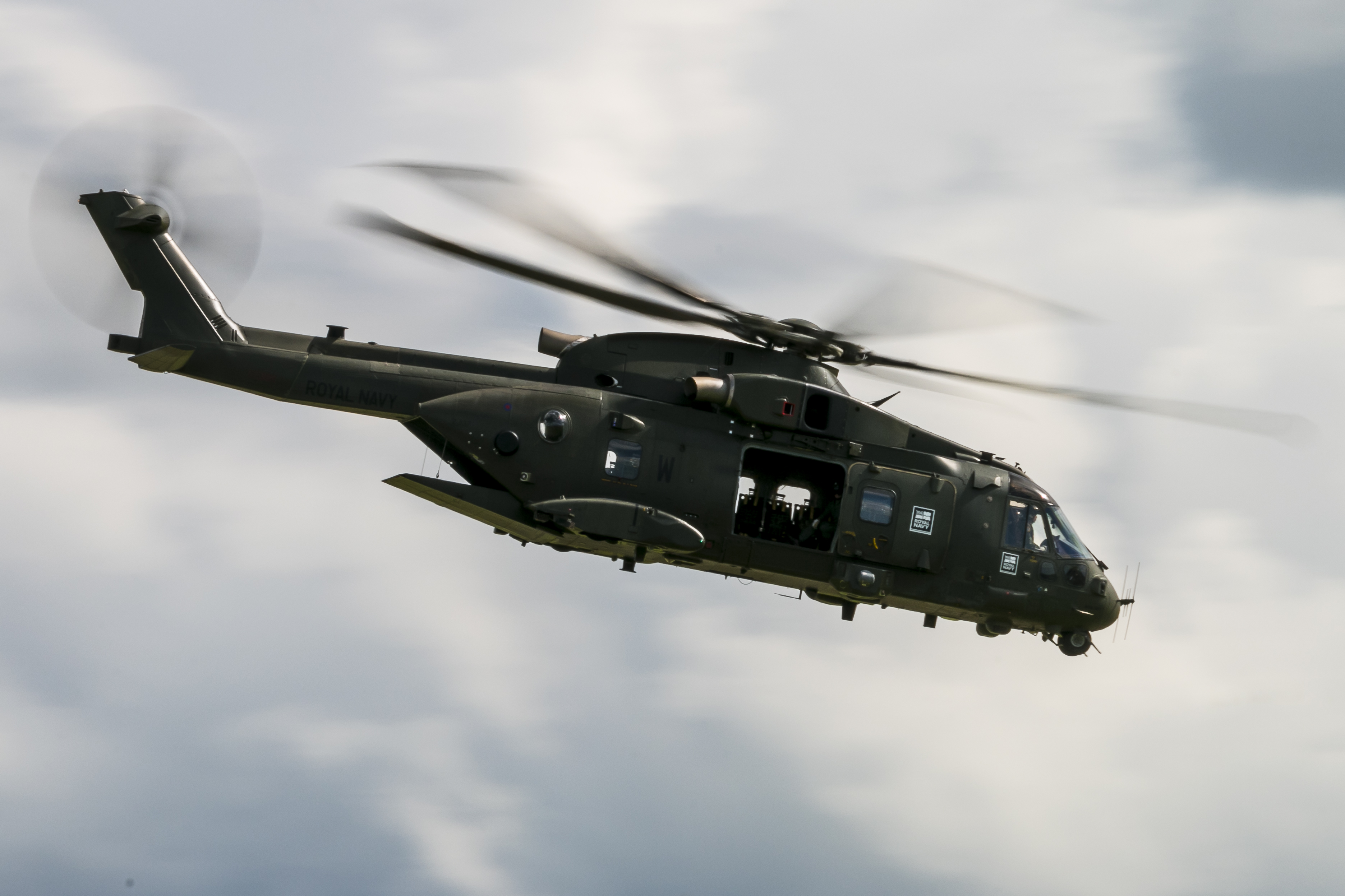 Royal Navy Commando Helicopter Force Merlin HC3/3A